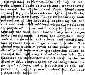 Newspaper account of the Newburgh Raid, Evansville Weekly Gazette, July 26, 1862